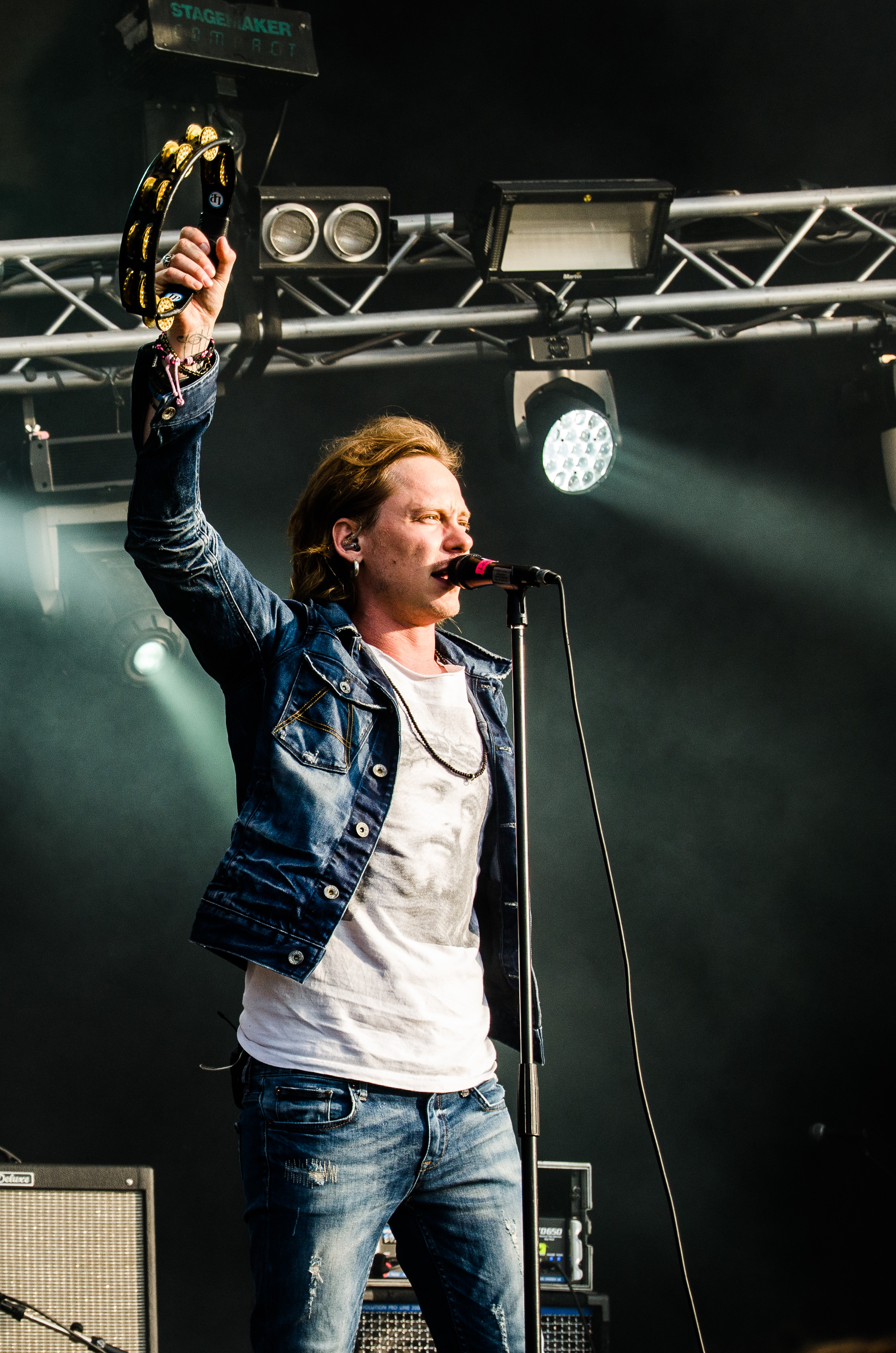 Jonne Aaron performing at Lappeenrannan Yöt 2013